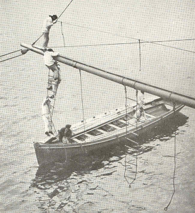 Subject: Ladders--Safety measures, Arrivals and departures, Naval maneuvers Tag: Vessels